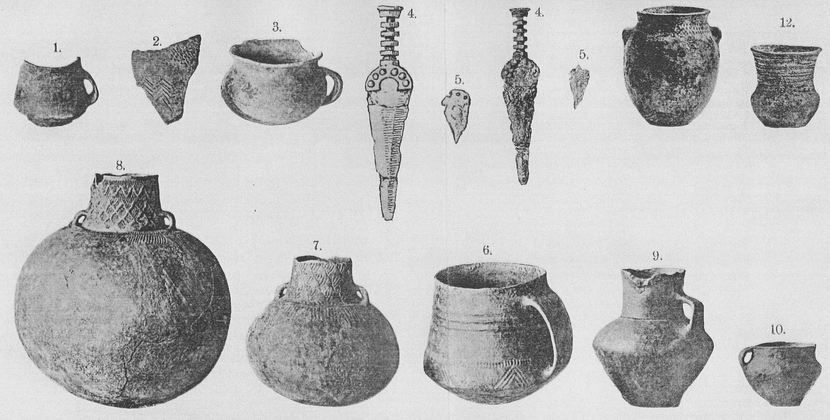 Finds from the Tumulus "Schneiderberg" at Baalberge